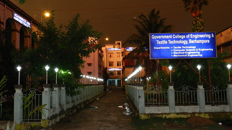 GCETTB ALBUM